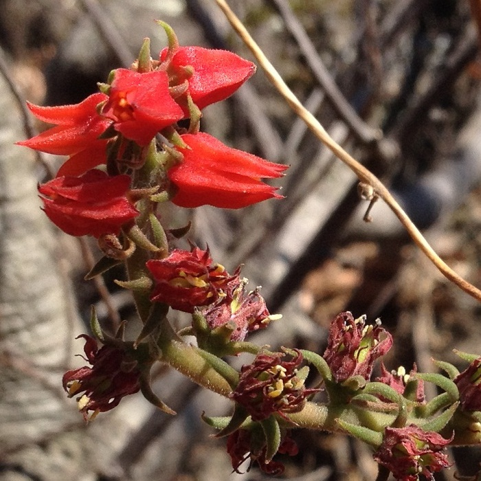 Inflorescence of Echeveria coccinea, a plant in the stonecrop family (Crassulaceae) native of the Trans-Mexican Volcanic Belt.